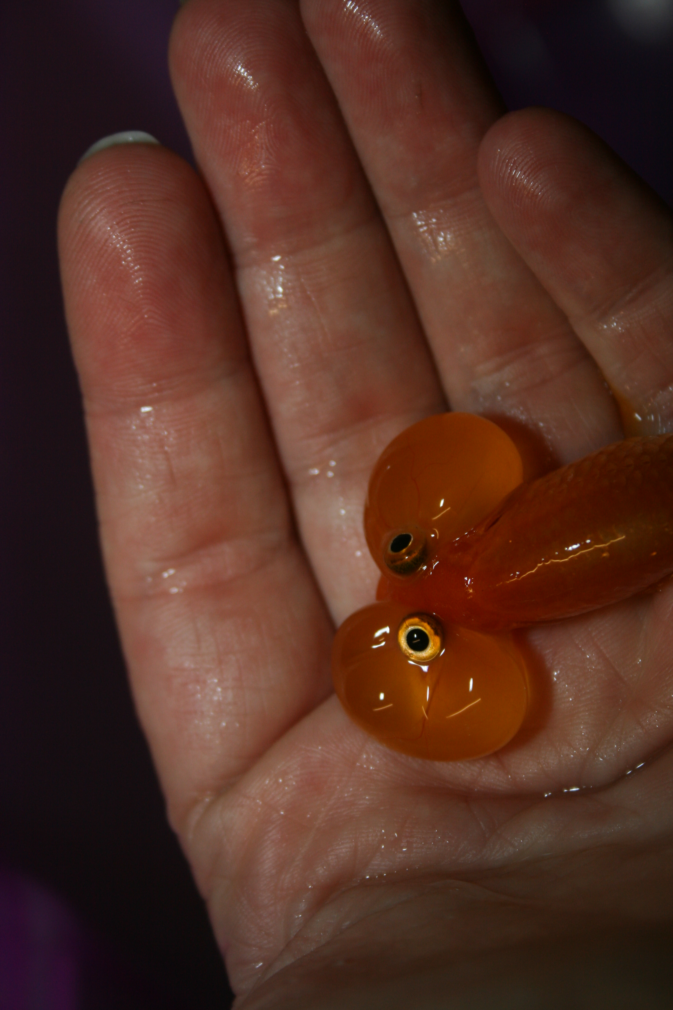 bubble eye goldfish in hand.